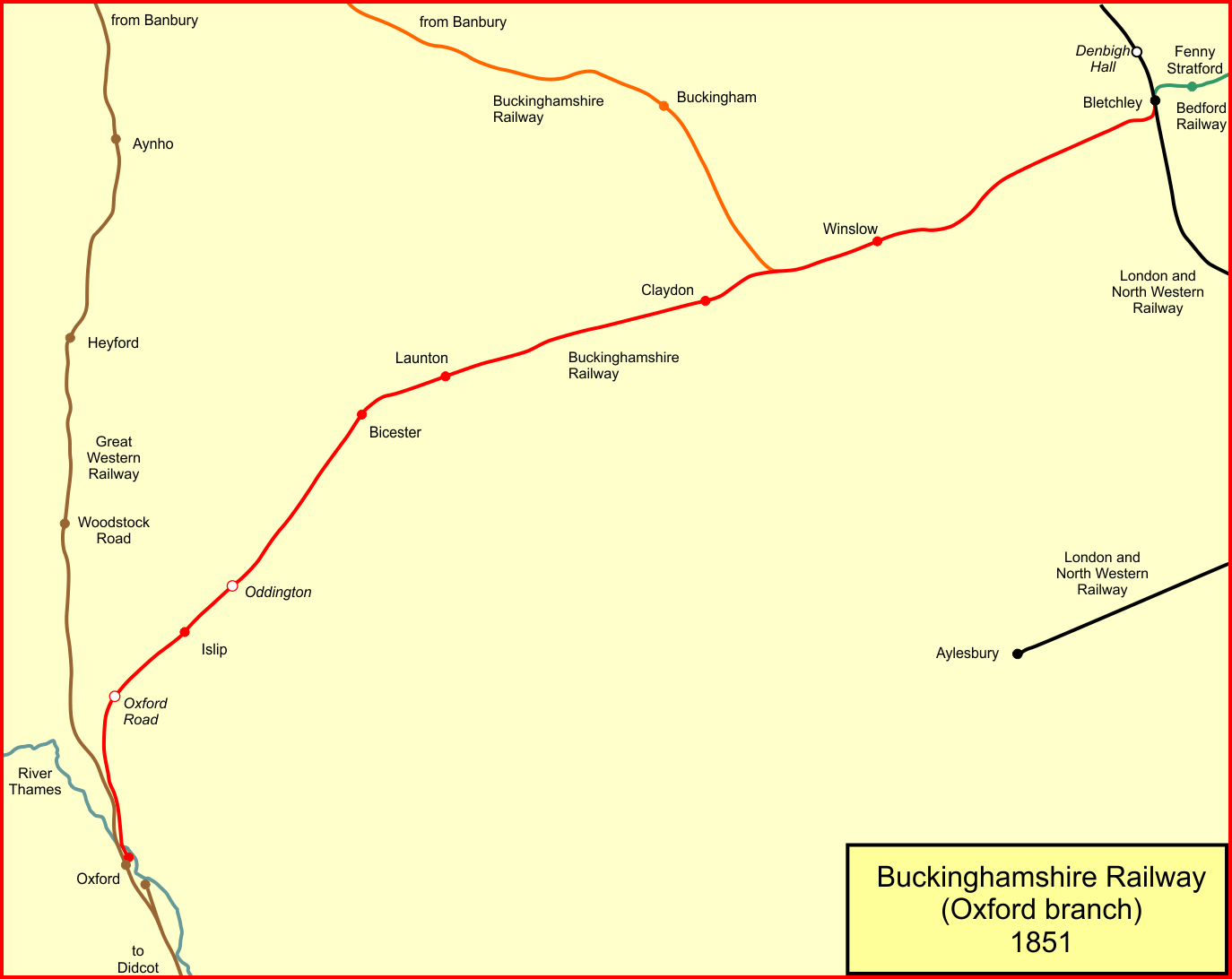 System map of the Buckinghamshire Railway, UK, in 1851